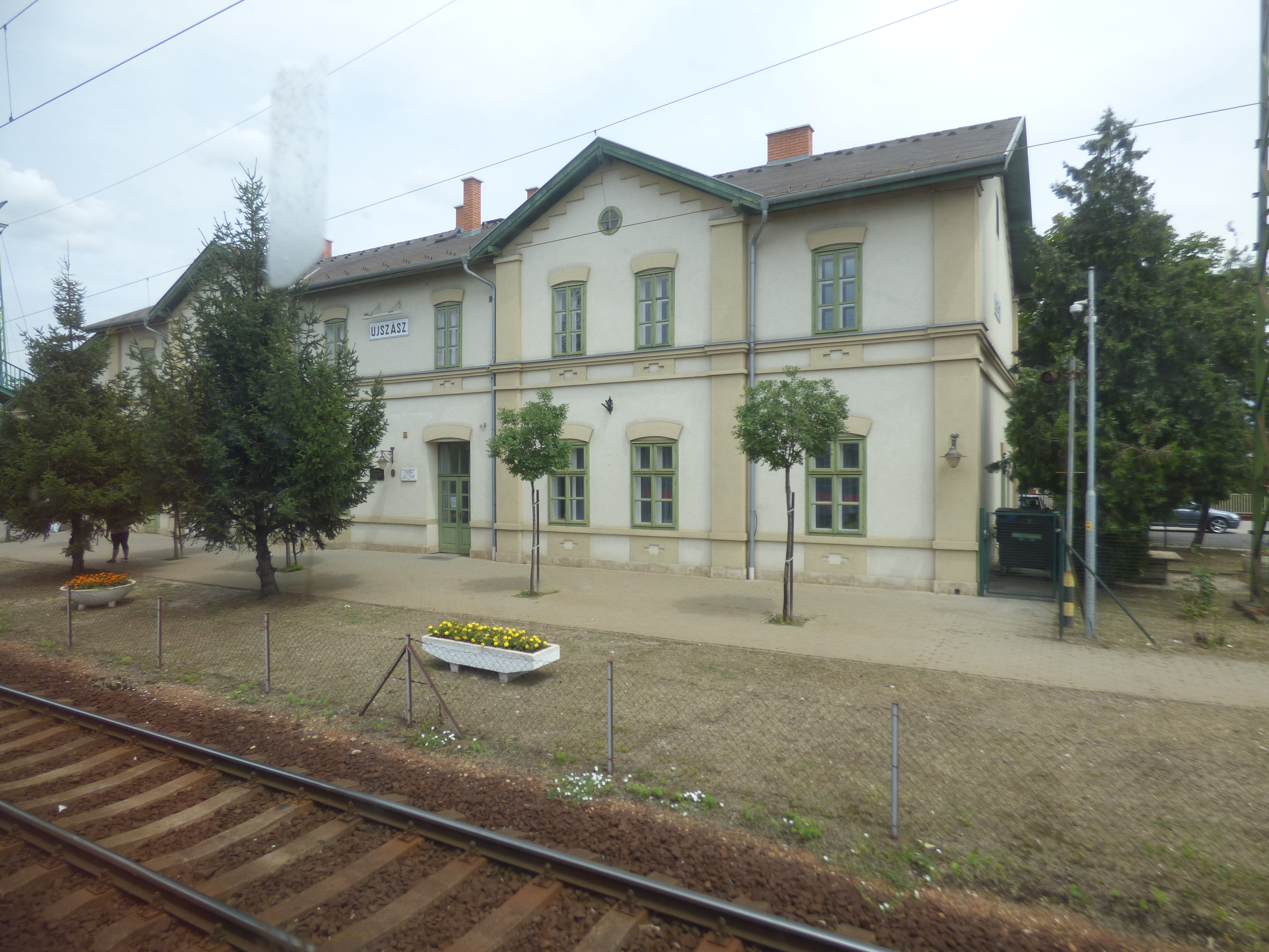 Újszász railway station